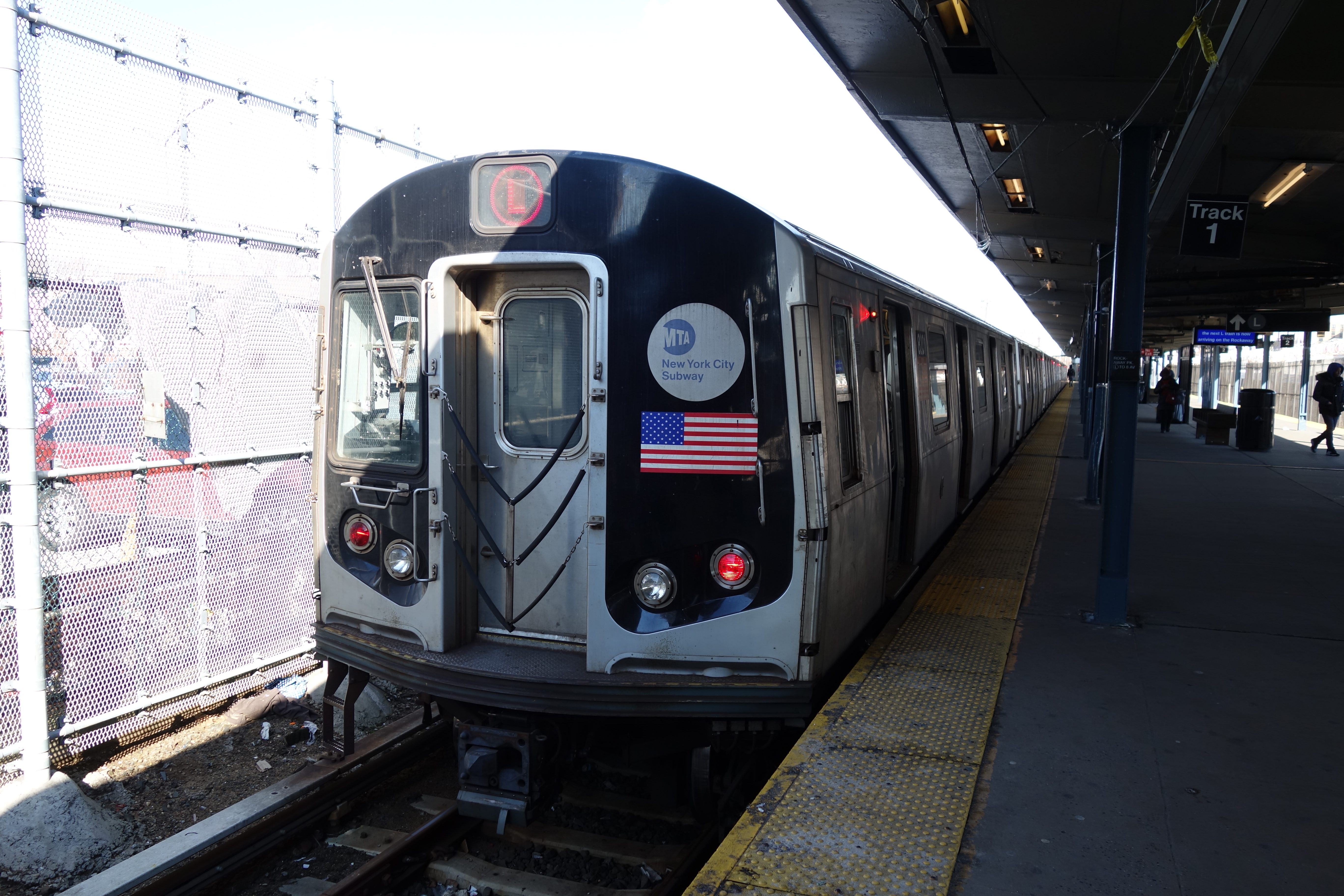 A terminated R143 L train on the Brooklyn-bound track of the Canarsie–Rockaway Parkway subway terminal, at Rockaway Parkway and Glenwood Road in Canarsie, Brooklyn.